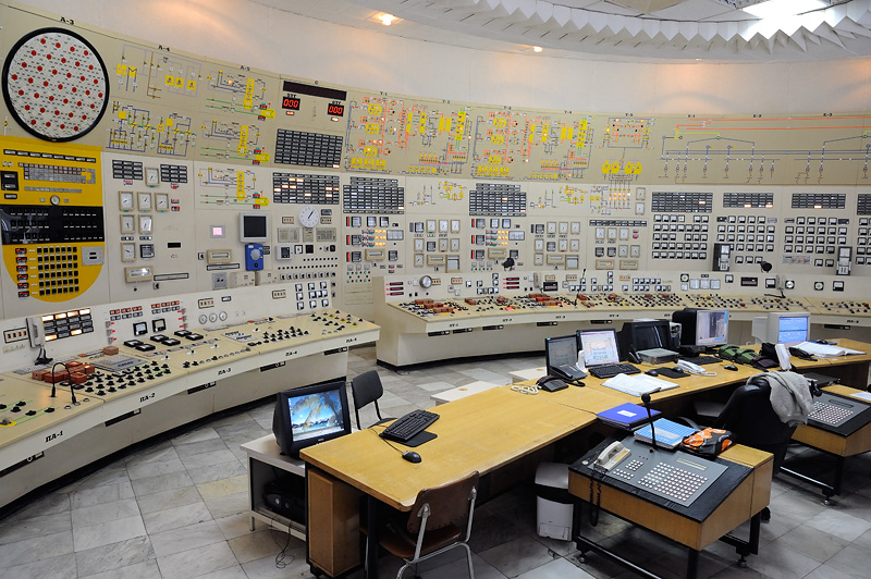 Inside the control room of Units 3 and 4 of the Kozloduy Nuclear Power Plant: two prominent red displays show "000", indicating that the units produce no electricity. The reactors have been shut down in 2006, but are still full of nuclear fuel.